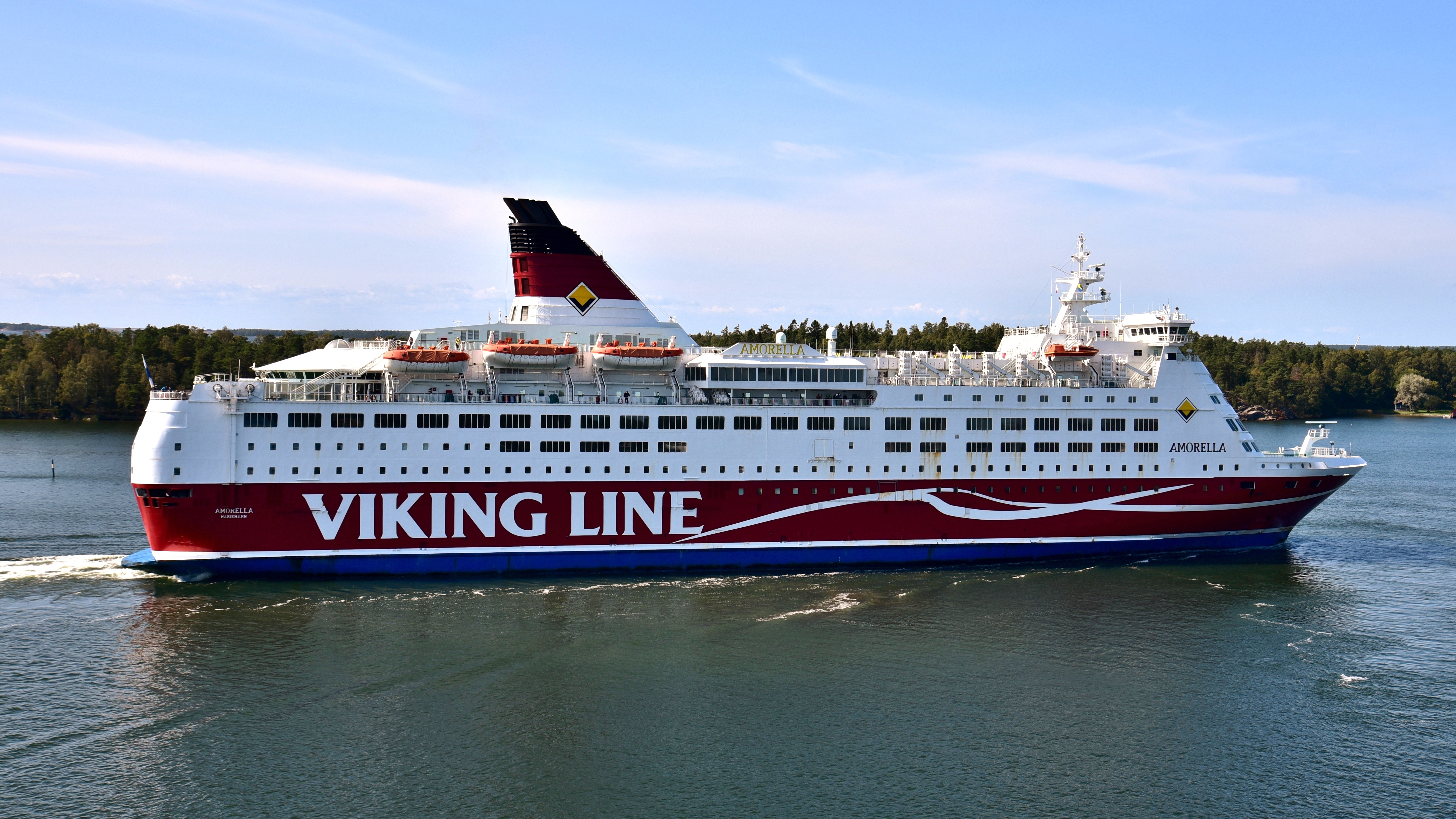 Viking Line cruiseferry MS Amorella arriving at the ferry terminal at Västerhamn, Mariehamn, Åland Islands en route from Turku - photo taken from a deck of the MS Galaxy, one of the Amorella's Silja Line competitor cruiseferries on the Turku to Stockholm route.